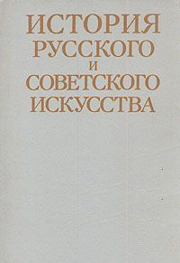 The History of Russian and Soviet art by Vladimir Plugin, ISBN 5-06-001441-Х